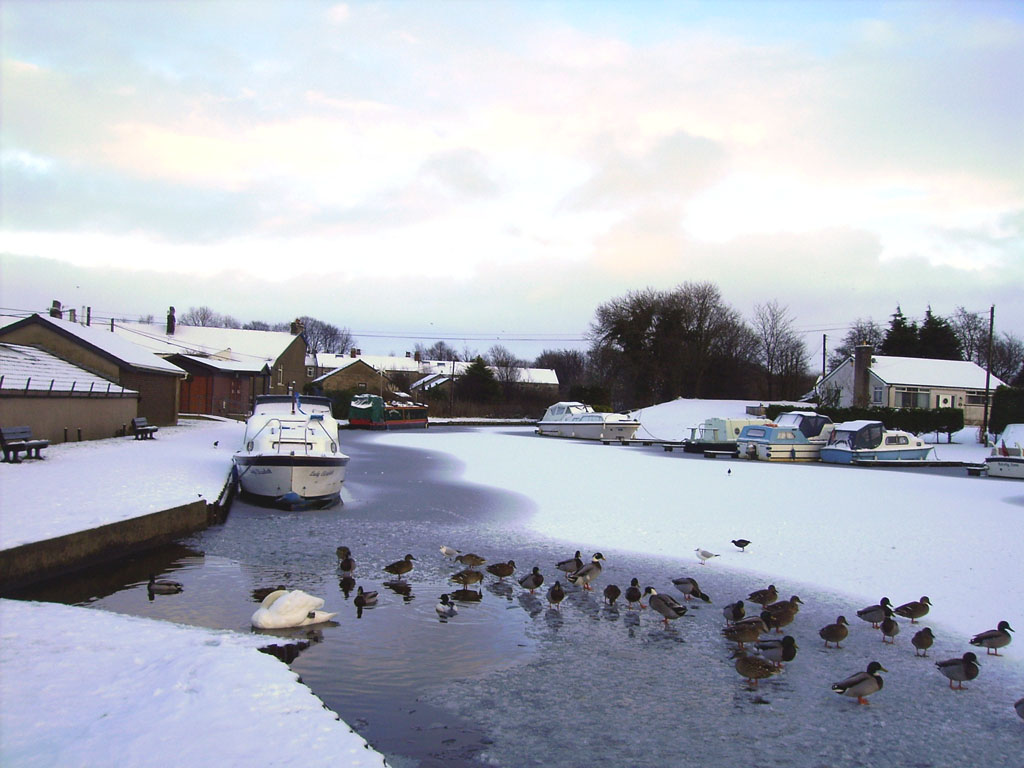 Winter on the Lancaster Canal at Carnforth. being so far north, it often freezes over in winter.